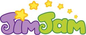 JimJam 2010-2018